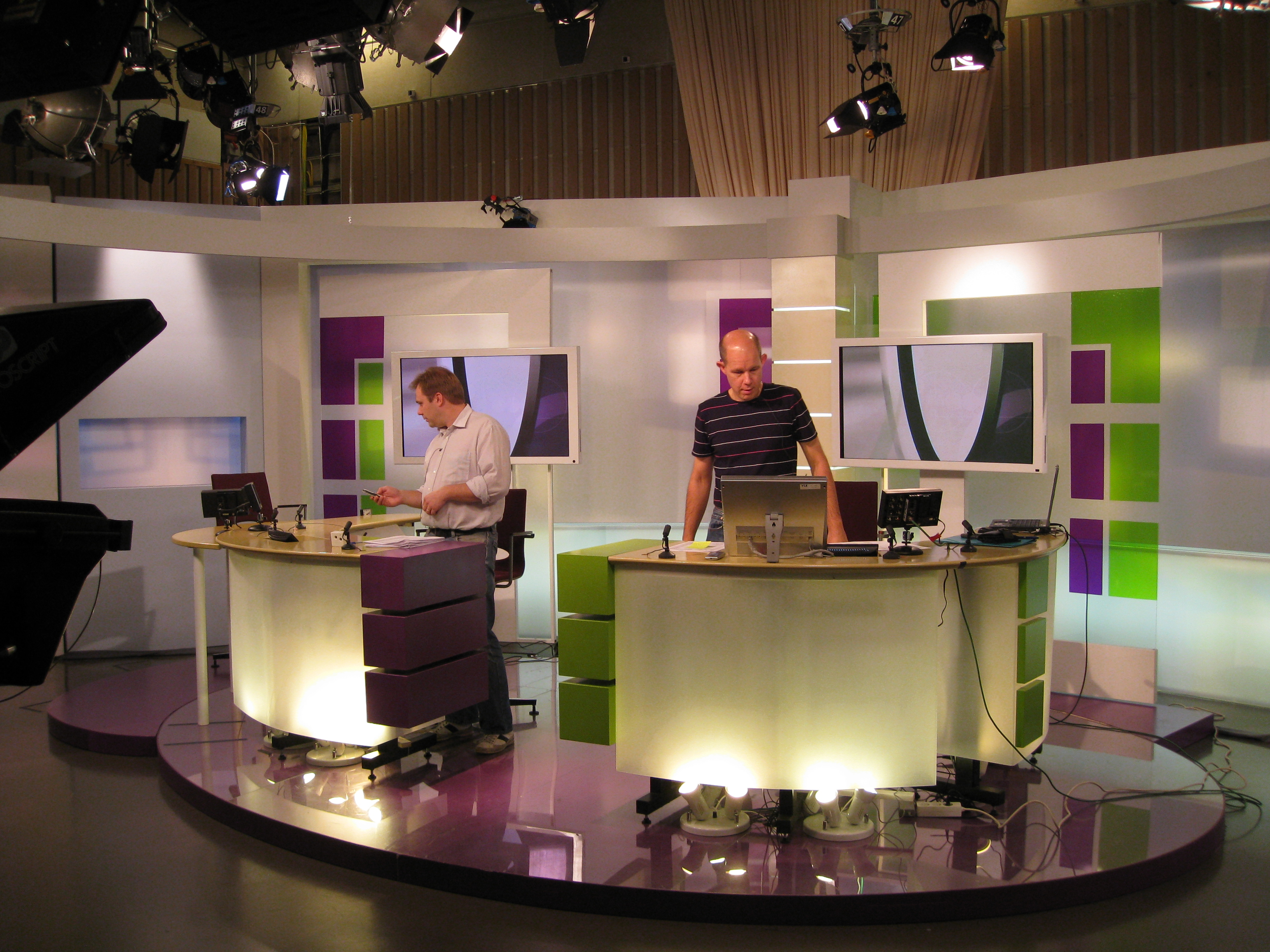 Guests were watching the rehearsal in studio